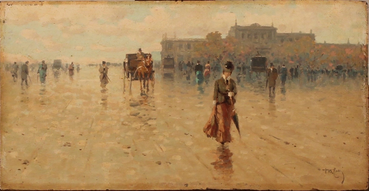 olio su tavola, 31 x 16 cm, coll. privata